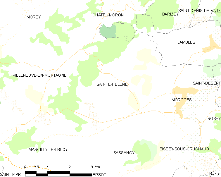 Map of French municipality